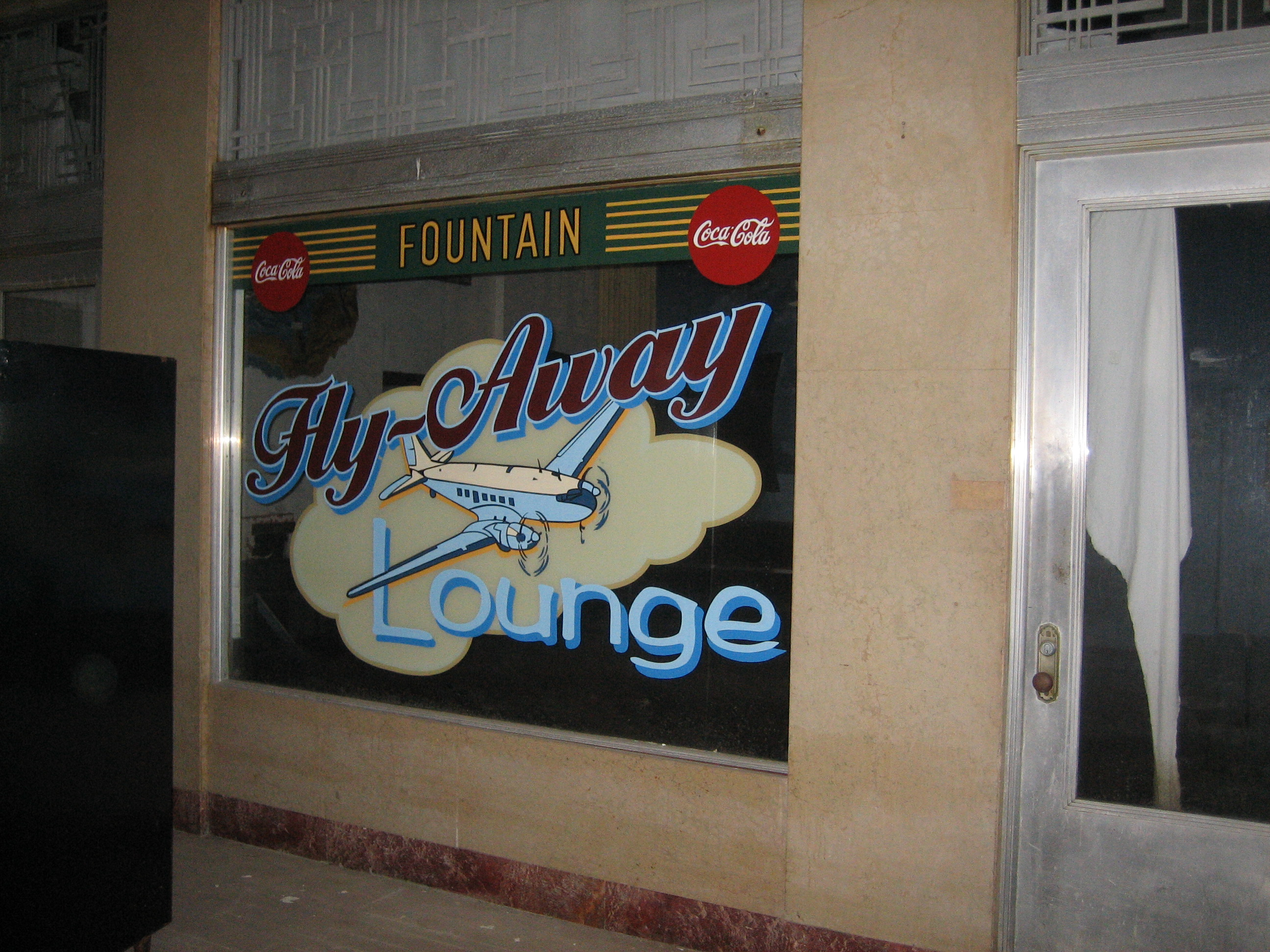 New Orleans: Lakefront Airport, inside old art deco terminal damaged by Hurricane Katrina storm surge.